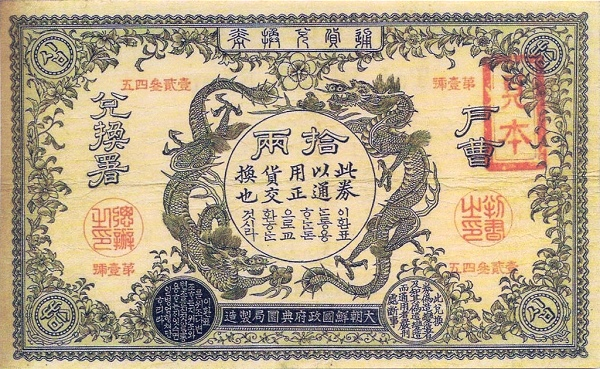 An unissued specimen banknote of the Kingdom of Joseon denominated in "Yang" (兩).